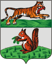 Barguzinsk (Buryatia), coat of arms (1790)